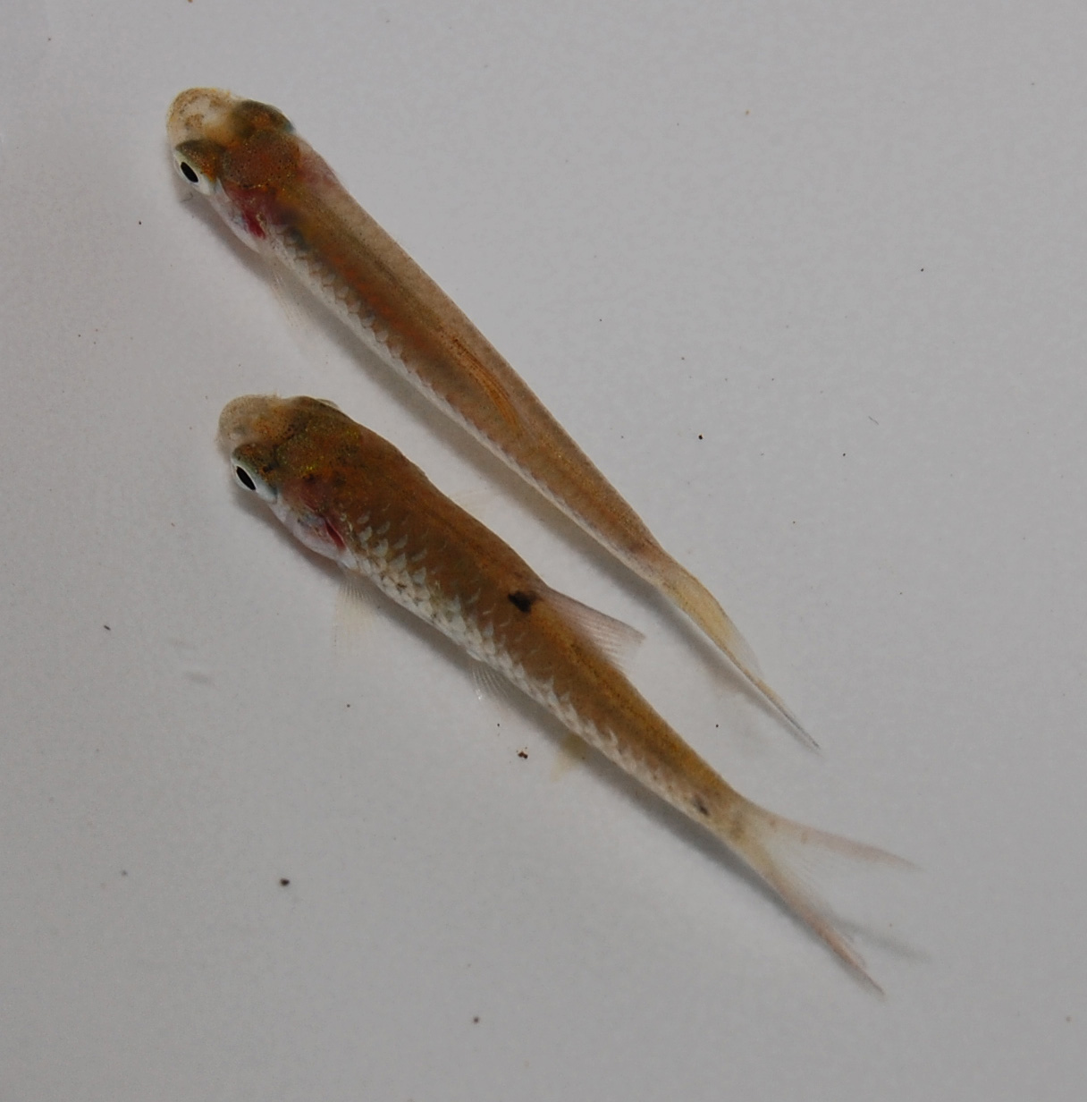 Rasbora argyrotaenia juvenile (19mm SL; above) and Puntius binotatus juvenile (17mm SL; below). From Cihideung (River) drainage (6°33.983’S 106°43.459’E), Bogor, West Java, Indonesia